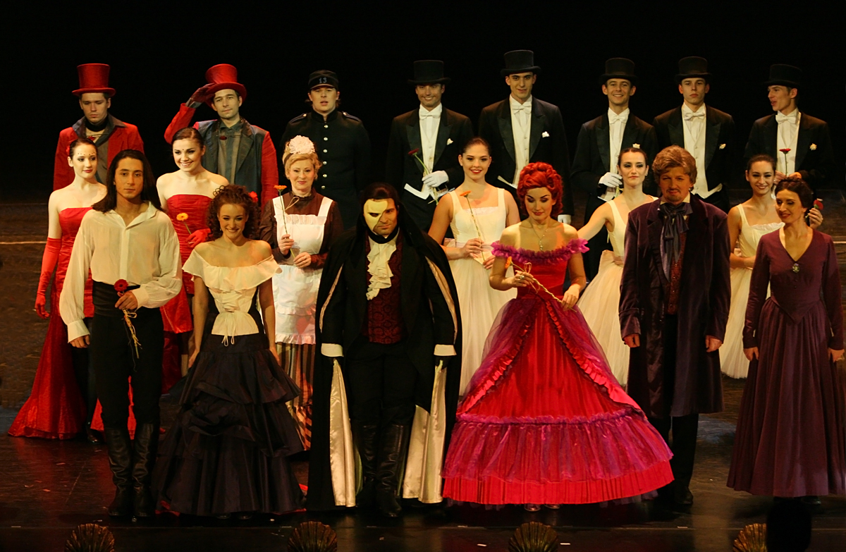 Actors of Roma Musical Theatre in Warsaw in the musical "The Phantom of the Opera", 25.11.2008.